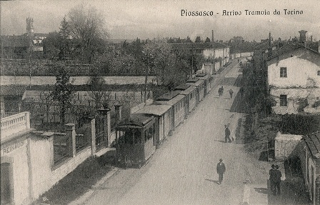 Piossasco, incoming steam tramway